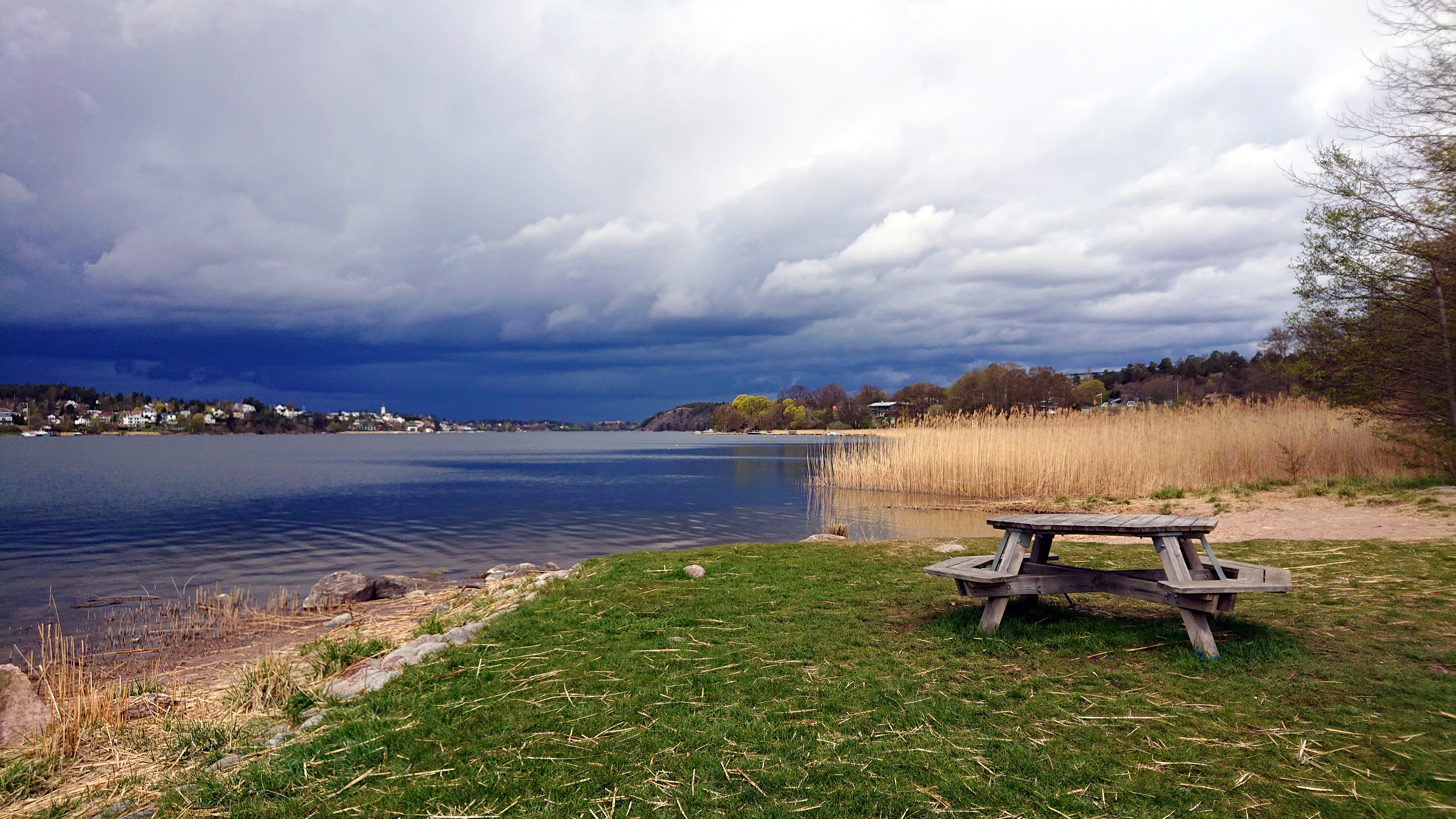 Edsviken at Sätra Äng in Danderyd (Stockholm urban area)